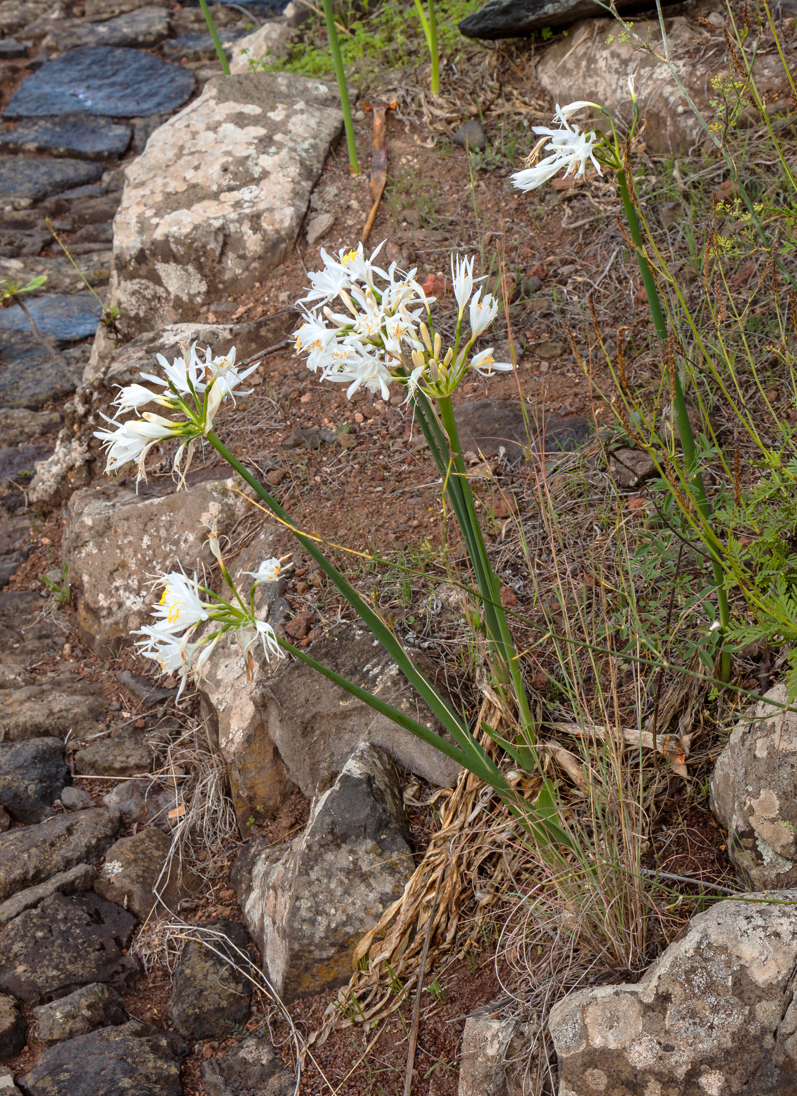 Pancratium canariense Ker Gawler (1817), Canary Sea Daffodil; Habitus; Jardín Botánico Canario Viera y Clavijo, Gran Canaria, Canary Islands, Spain.